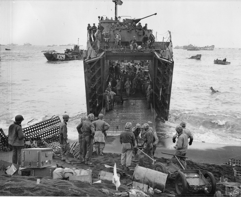 Photo caption: Iwo Jima, February 22, 1945. Supplies: An LSM, (Landing Ship, Medium), drops it's ramp almost clear of the water and Marines roll supplies ashore for the inland drive on Iwo Jima. From the Photograph Collection at the Marine Corps Archives and Special Collections OFFICIAL USMC PHOTOGRAPH